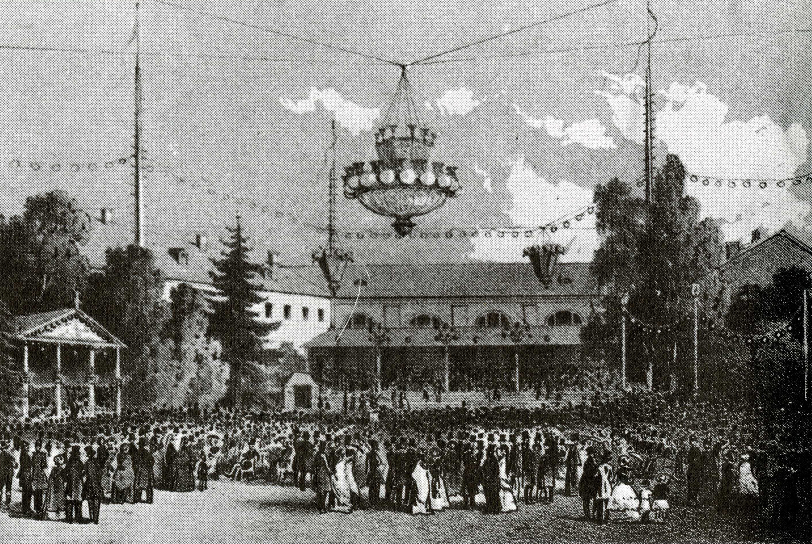 Johann Luzius Islers' Mineral-Water-Establishment in St. Petersburg (guests in 1852)